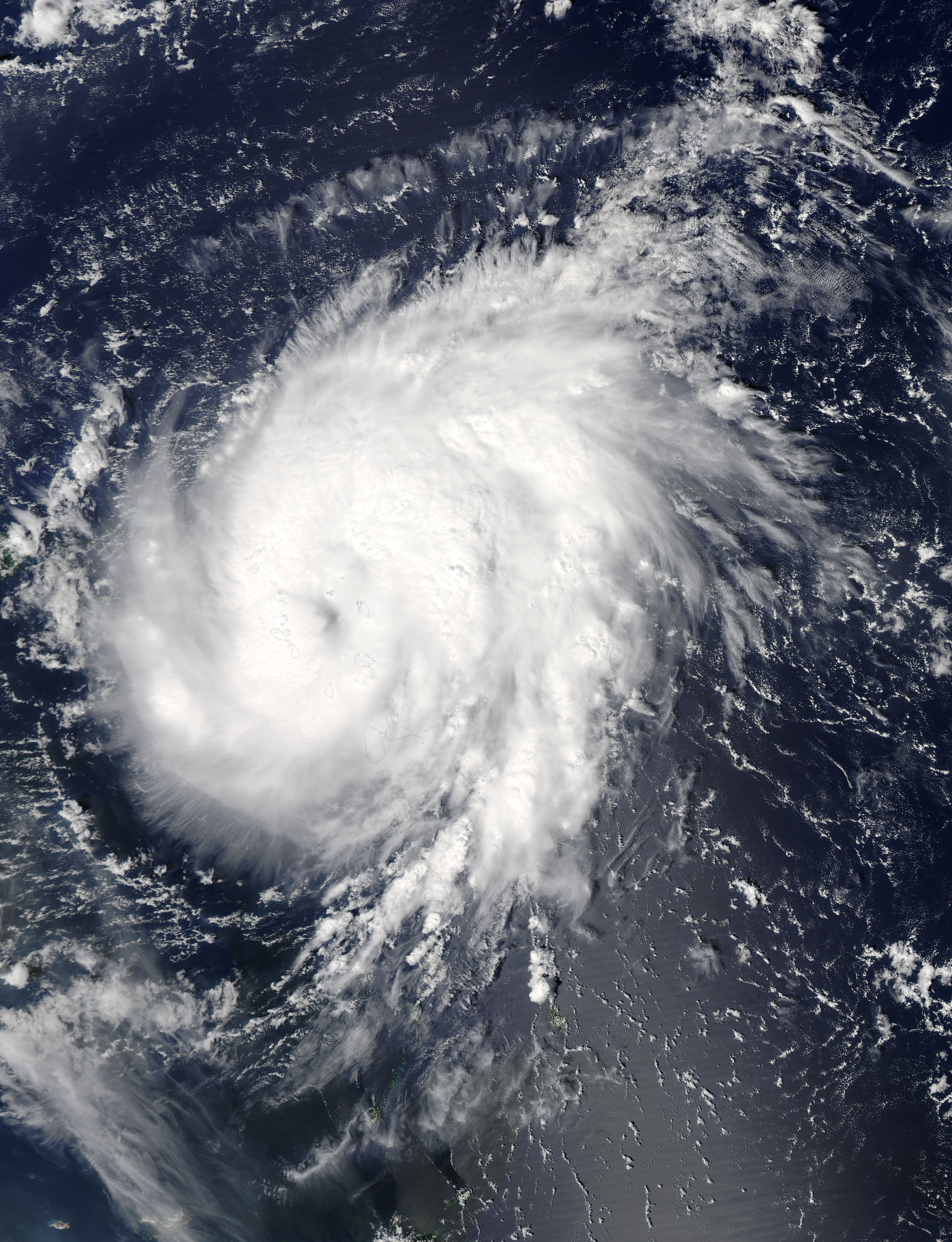 Hurricane Gonzalo on October 13, showing an eye in its center.